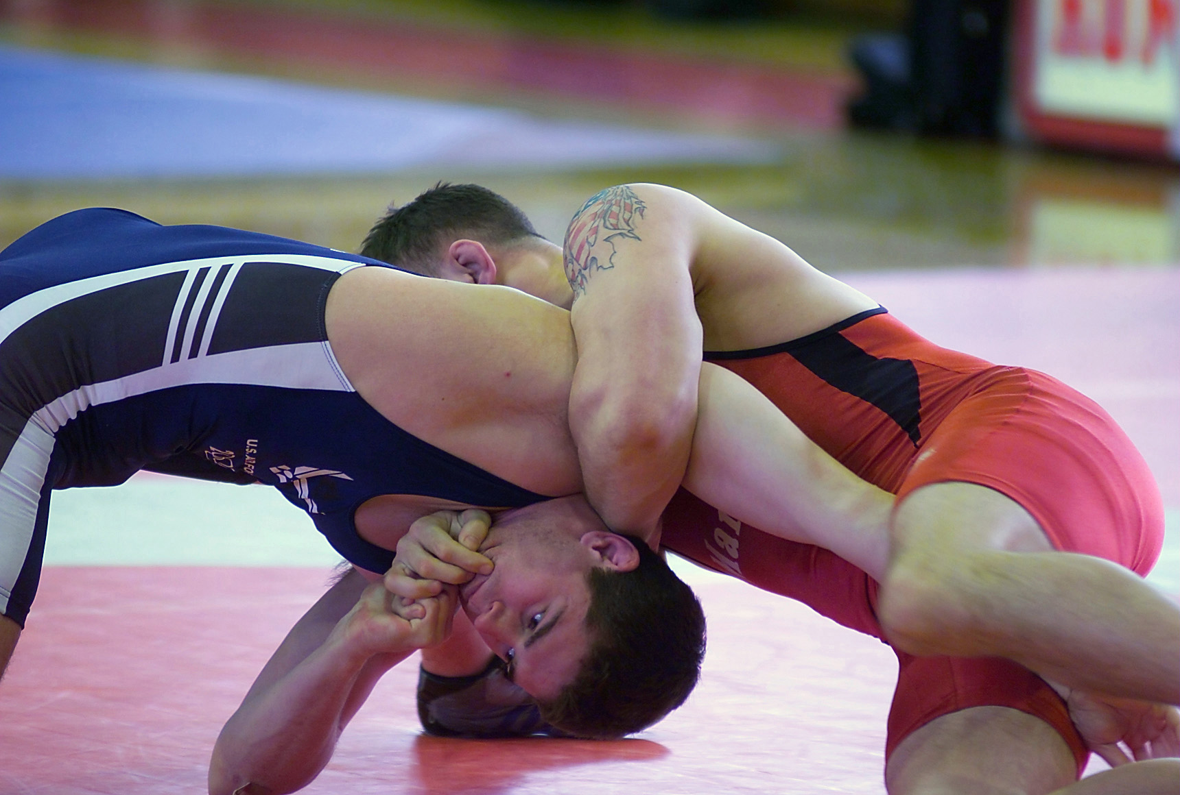 US Marine Corps (USMC) Corporal (CPL) Jacob Clark (dressed in red), a member of the All Marines Wrestling Team, competes in a Freestyle wresting match against a member of the All US Navy (USN) Team, during the Armed Forces Wrestling Championship held in New Orleans, Louisiana (LA). Author: Staff Sergeant Jason M. Carter, USMC (Released to Public)